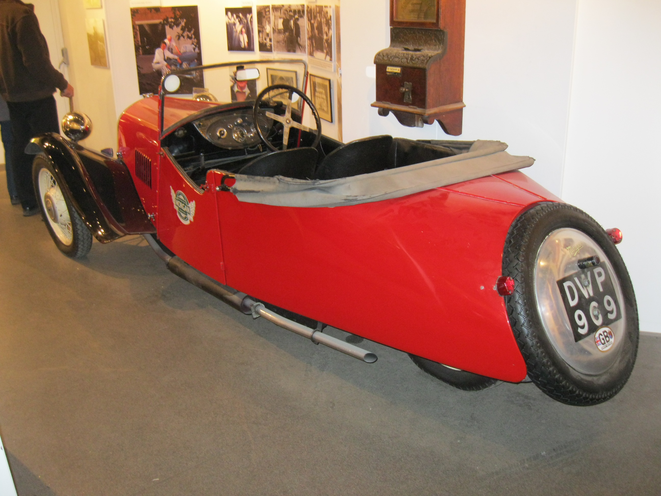 Morgan F4 3 wheeled open tourer c.late 1930s/1940s